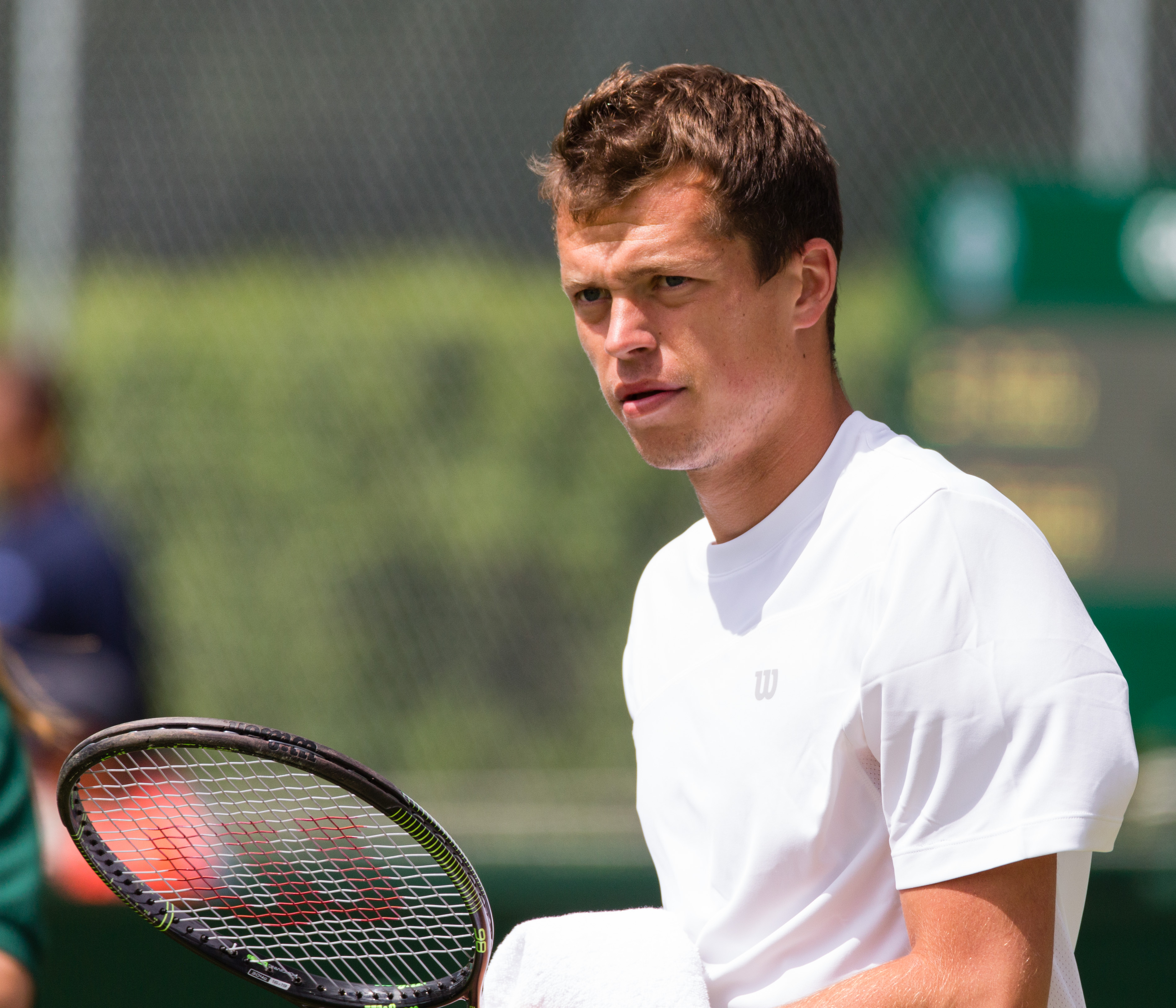 Adam Pavlásek competing in the first round of the 2015 Wimbledon Qualifying Tournament at the Bank of England Sports Grounds in Roehampton, England. The winners of three rounds of competition qualify for the main draw of Wimbledon the following week.